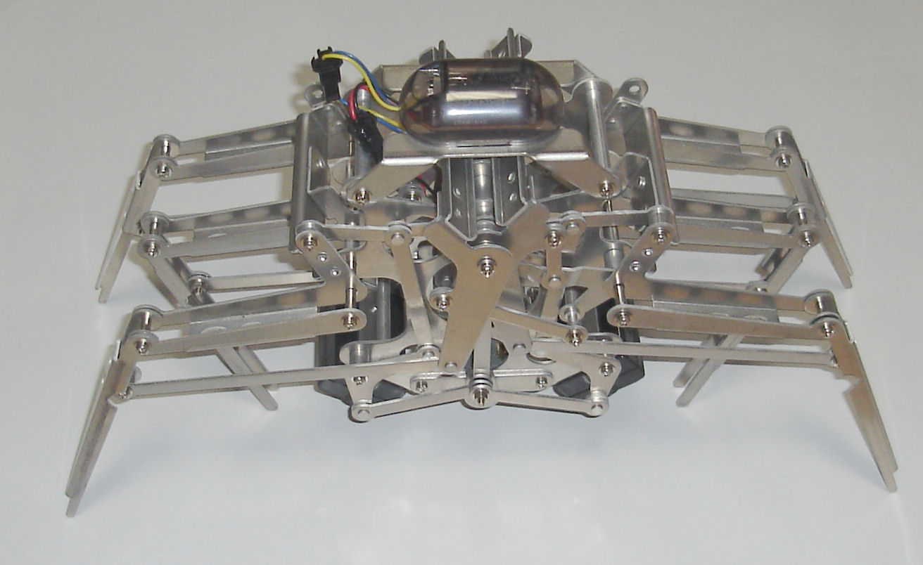 Mechamo Clab by Gakken